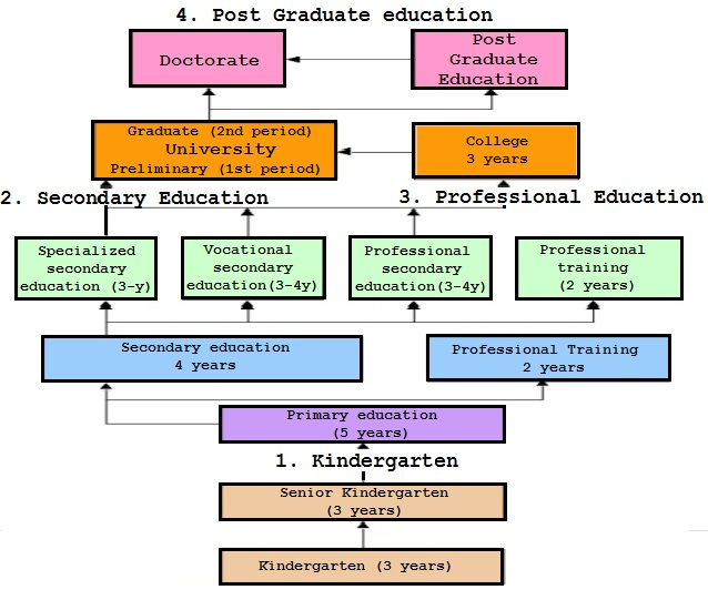 Educational system in UK